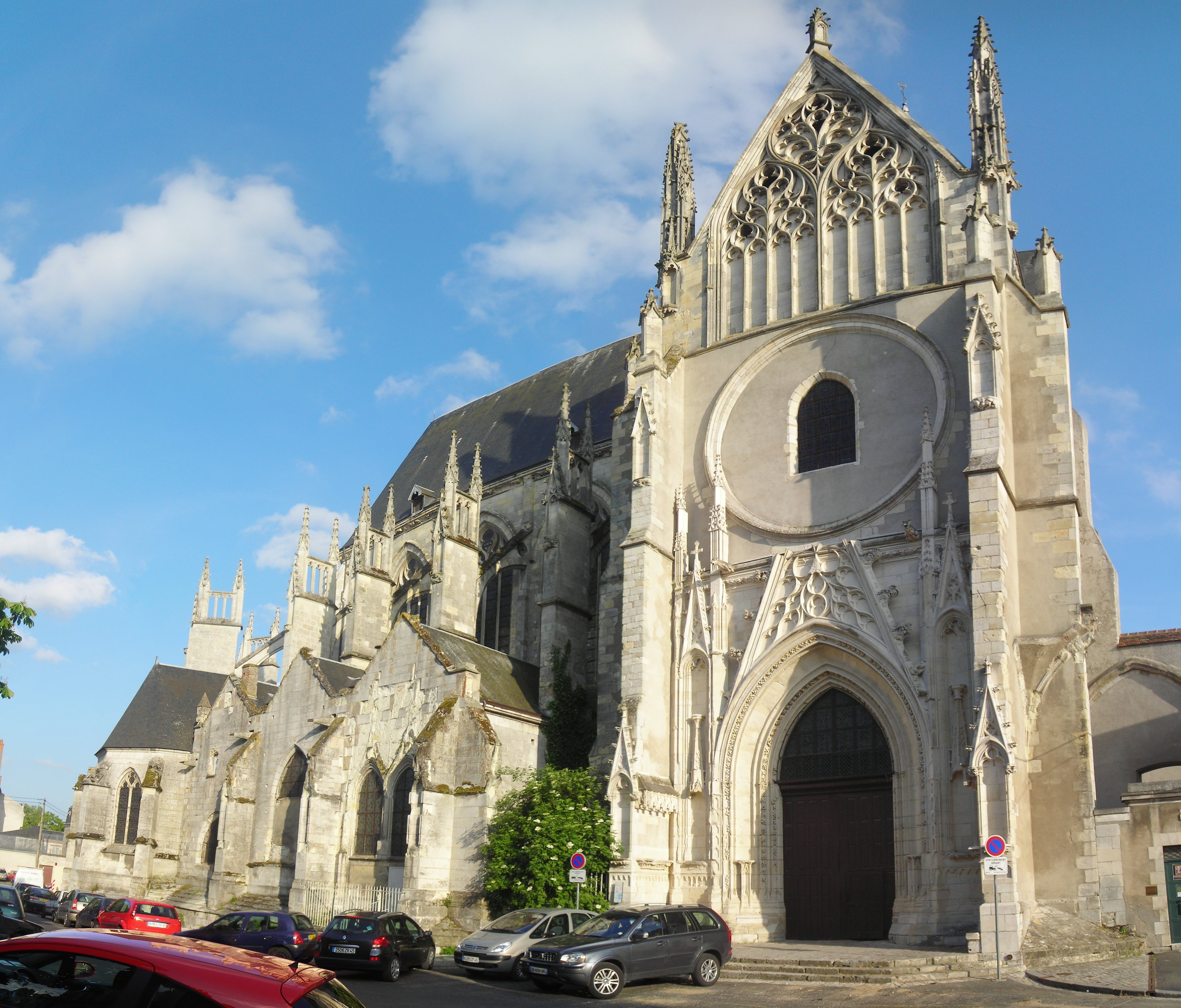 Eglise Saint-Aignan, Orléans, Loiret